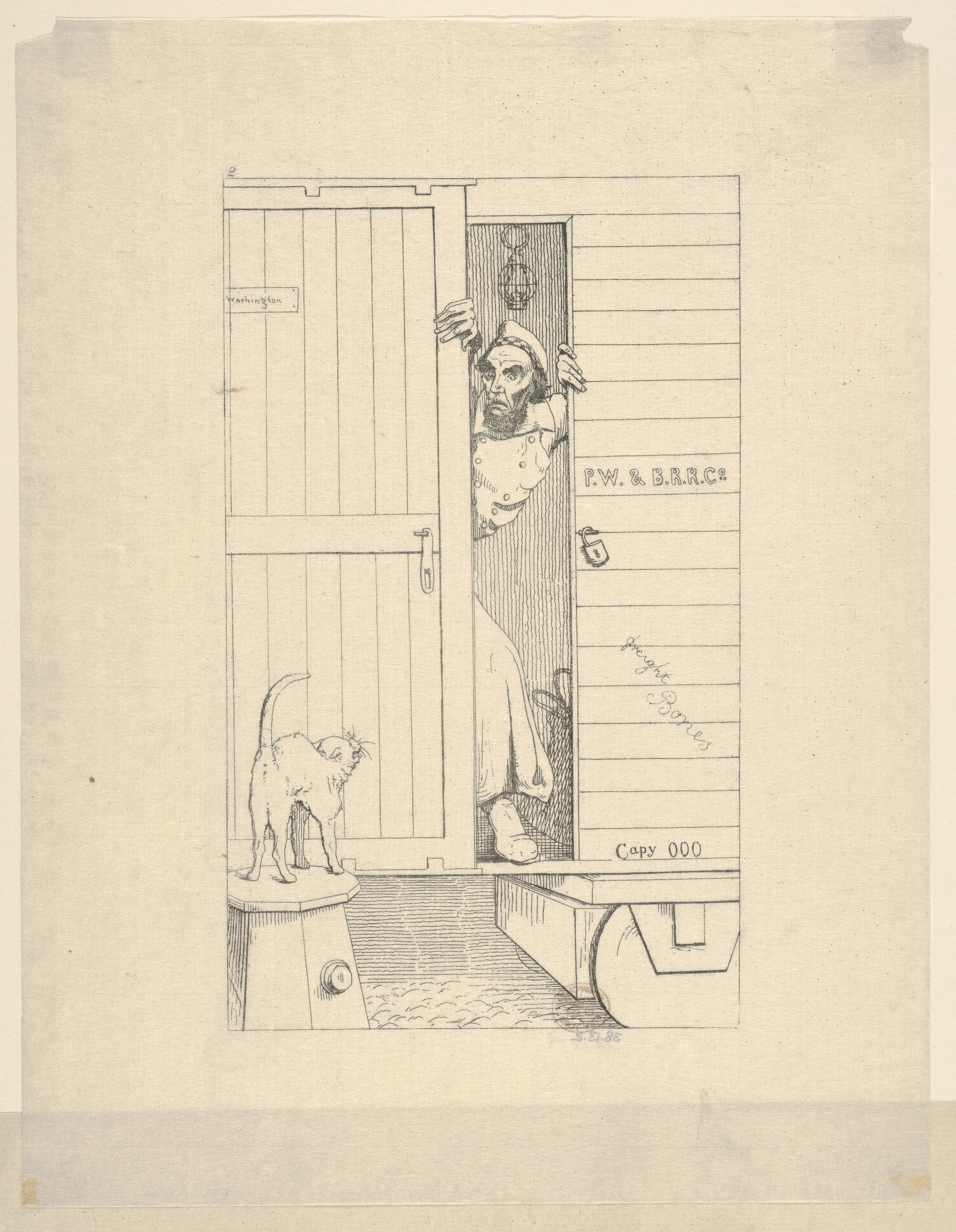 Print; Prints